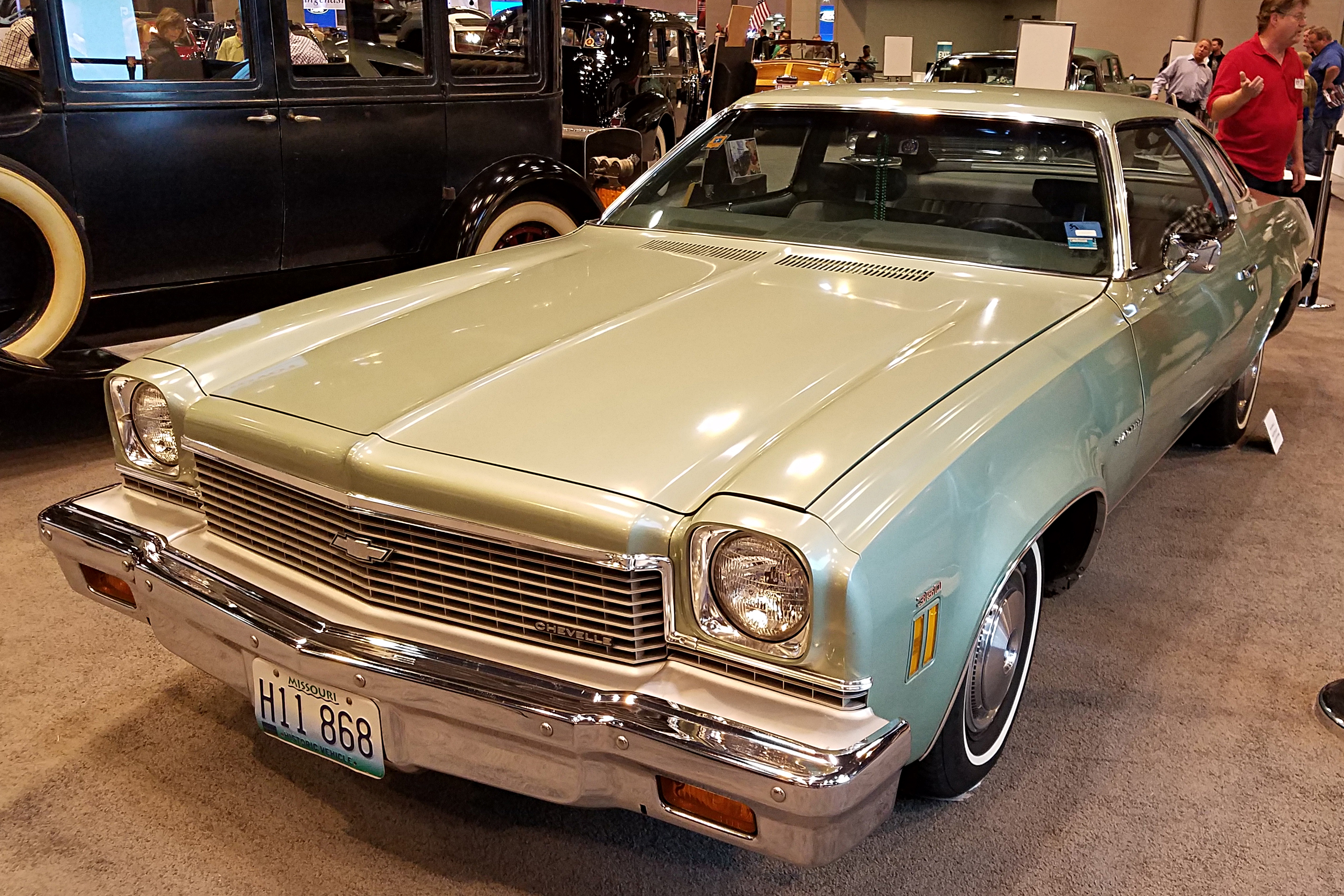 1973 Chevrolet Chevelle Coupe